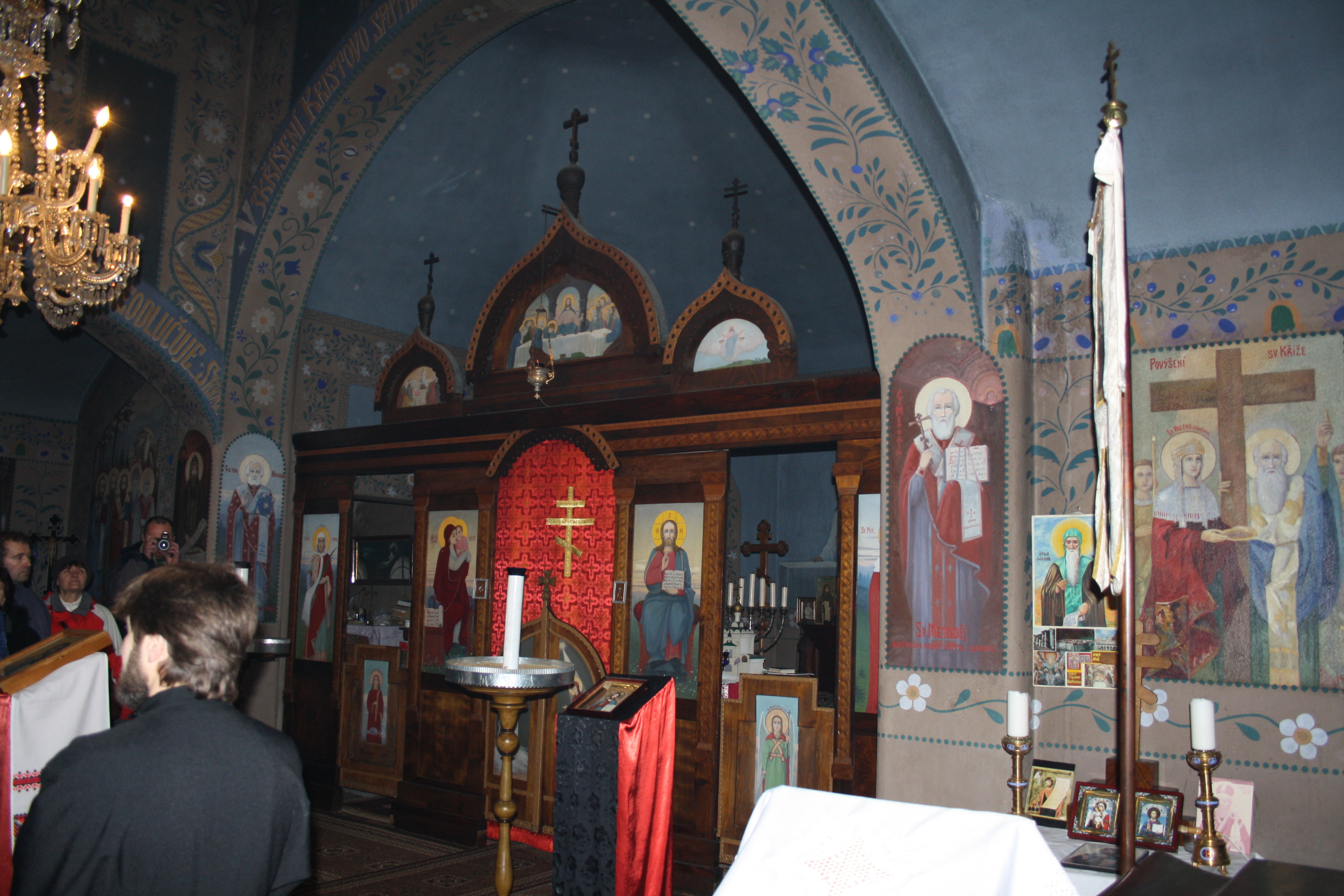 Altar of orthodox Church of saint Wenceslaw and Saint Ludmila in Třebíč, Czech Republic.